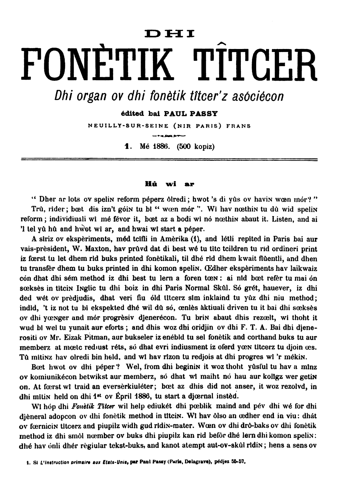 The first issue of The Phonetic Teacher (here spelled "Dhi Fonètik Tîtcer"), edited by Paul Passy, published in 1886, precursor to the Journal of the International Phonetic Association